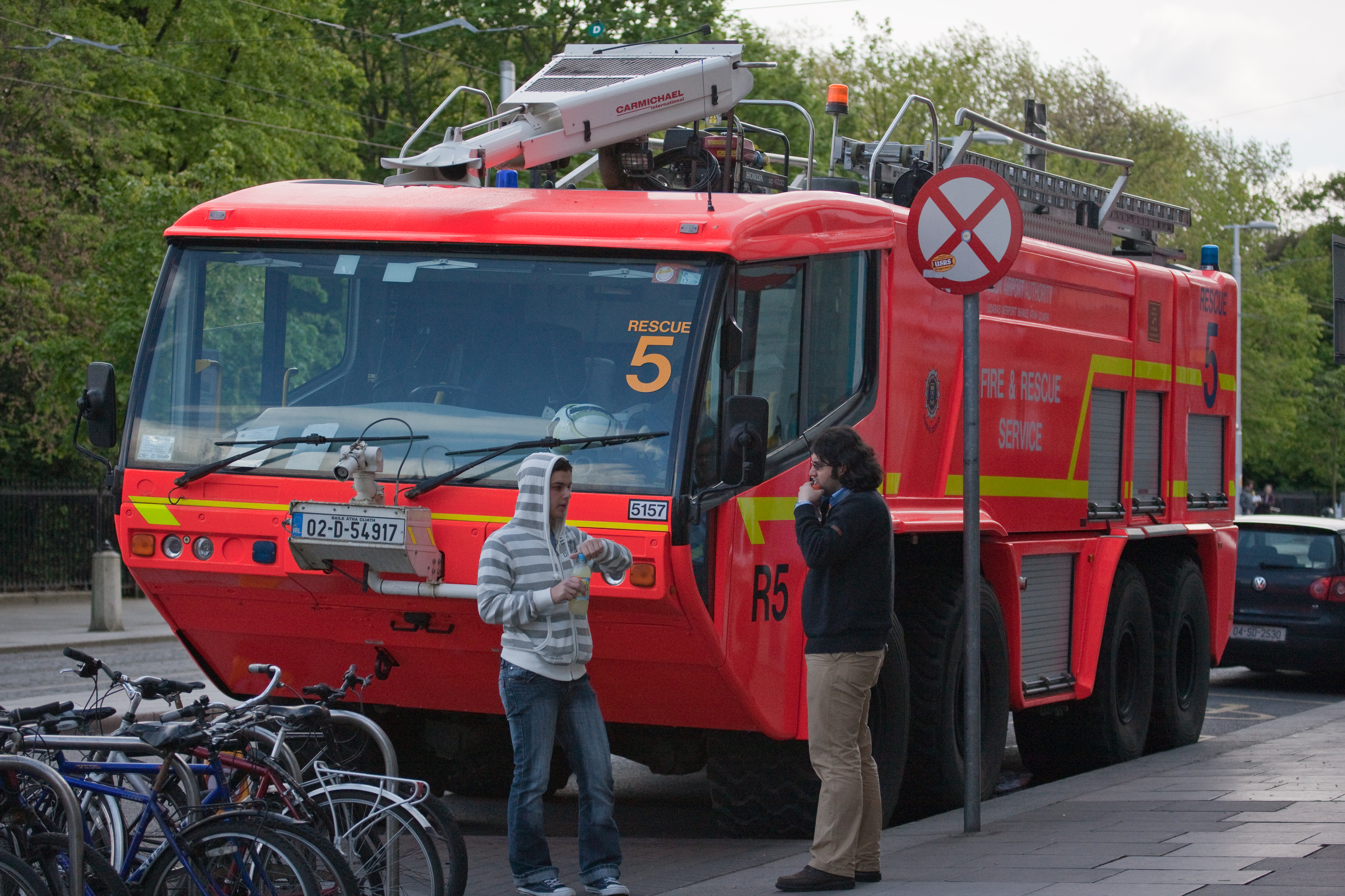 Very Large Fire Appliance